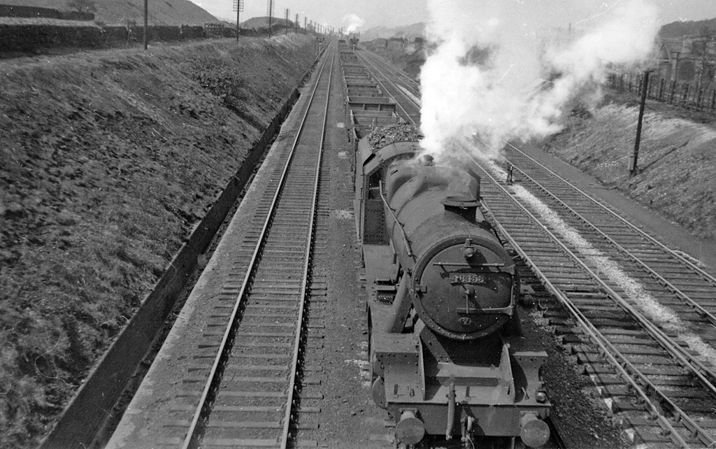 Eastbound empties west of Mirfield. View westward, towards Huddersfield, Sowerby Bridge and Manchester; ex-Lancashire & Yorkshire/London & North Western combined four-track cross-Pennine major route. It was particularly busy on this stretch between Heaton Lodge and Thornhill Junctions and at least two moving trains are visible in the photograph. The locomotive about to warm me in its smoke is Stanier 8F 2-8-0 No. 48453.